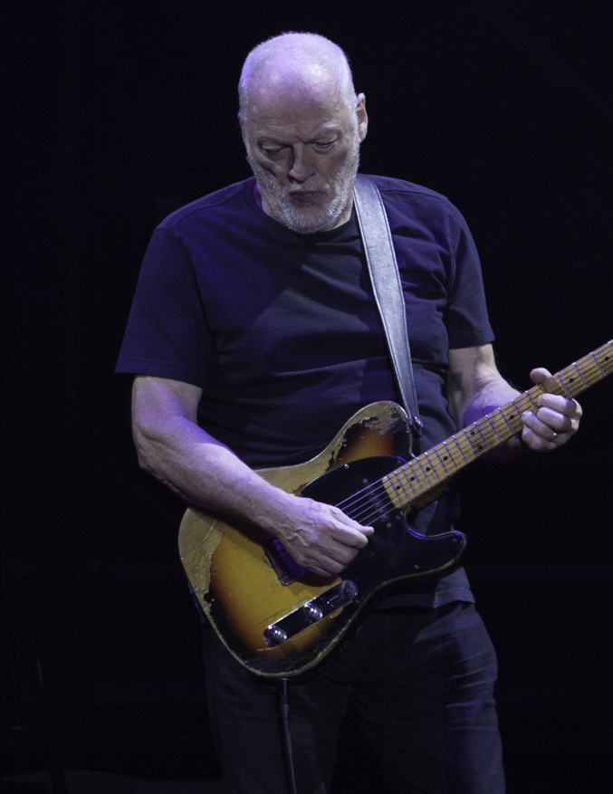 David Gilmour's 70,000 fans gather for his first ever concert in Buenos Aires Hipódormo de San Isidrio, Argentina.The singer-songwriter decided to craft a setlist blending his own solo material with highly anticipated and well-loved Pink Floyd tunes.The first half of the gig brought the audience Dark Side of the Moon classics "Us&Them" and "Money" along with solo cuts " 5 A.M.," "In Any Tongue" and "A Boat Lies Waiting" from his latest studio album, Rattle That Lock.The show saw a similar second set of debut album track "Astronomy Domine," Atom Heart Mother's "Fat Old Sun" and Wish You Were Here fan favorite, "Shine On You Crazy Diamond." As the set continued, the 69-year-old guitar legend rolled out more solo material off of his fourth studio album including "The Girl in the Yellow Dress," "Today," and "On An Island" trailed by his former group's "Sorrow" and The Wall track, "Run Like Hell."Ref